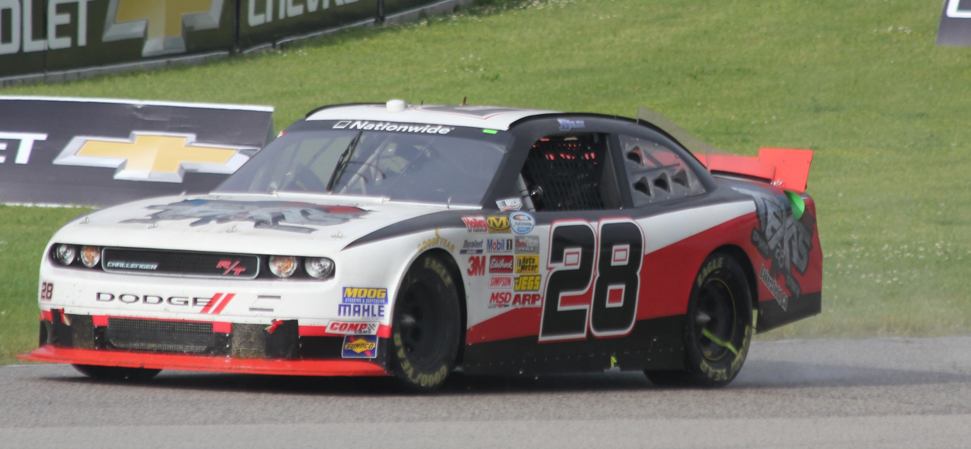 The drivers side of J.J. Yeley Nationwide car during the 2014 Gardner Denver 200 at Road America. Taken racing up the hill between turns 5 and 6. He was racing in the rain with rain tires.